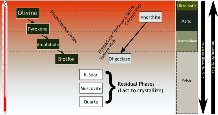 The diagram depicts the sequence of mineral crystallization from a magma with cooling.